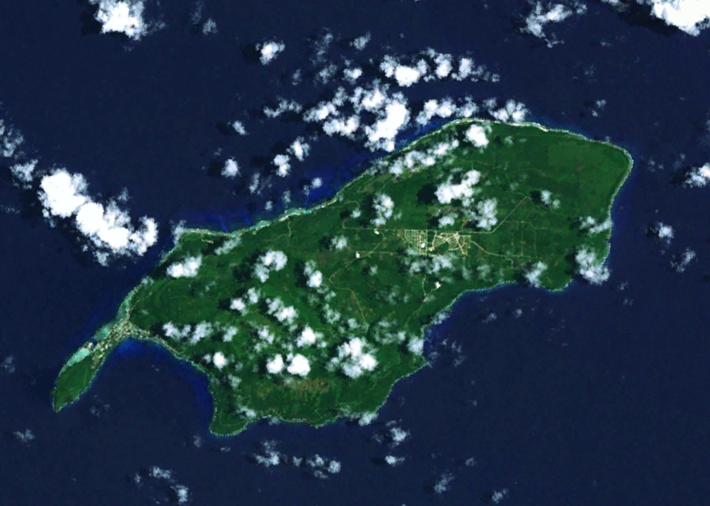 Satellite view of Rota Island (Northern Mariana Islands)